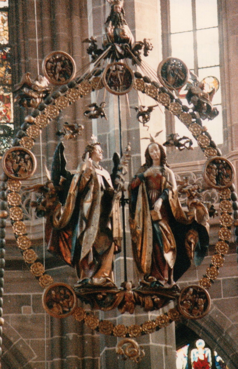 The Annunciation (1517-1518) by Veit Stoss in Lorenzkirche, Nuremberg, Germany